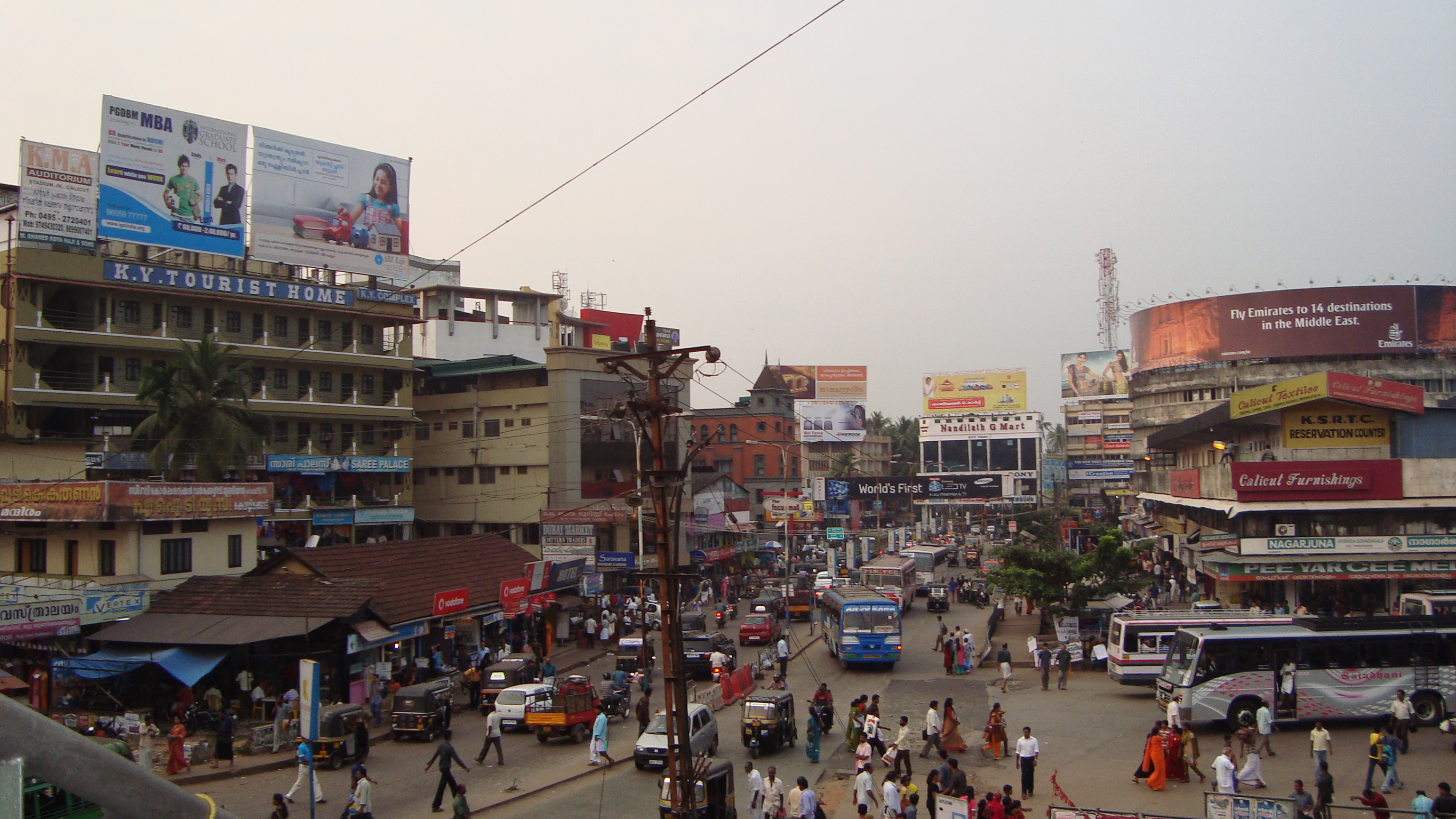 Mofussil Bus Stand (New Bus Stand) entrance on the Indira Gandhi Road (Mavoor Road), Calicut